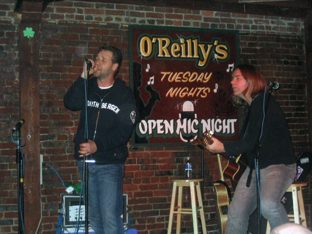 Russell Crowe and Alan Doyle at O'Reilly's Pub in St. John's, Newfoundland